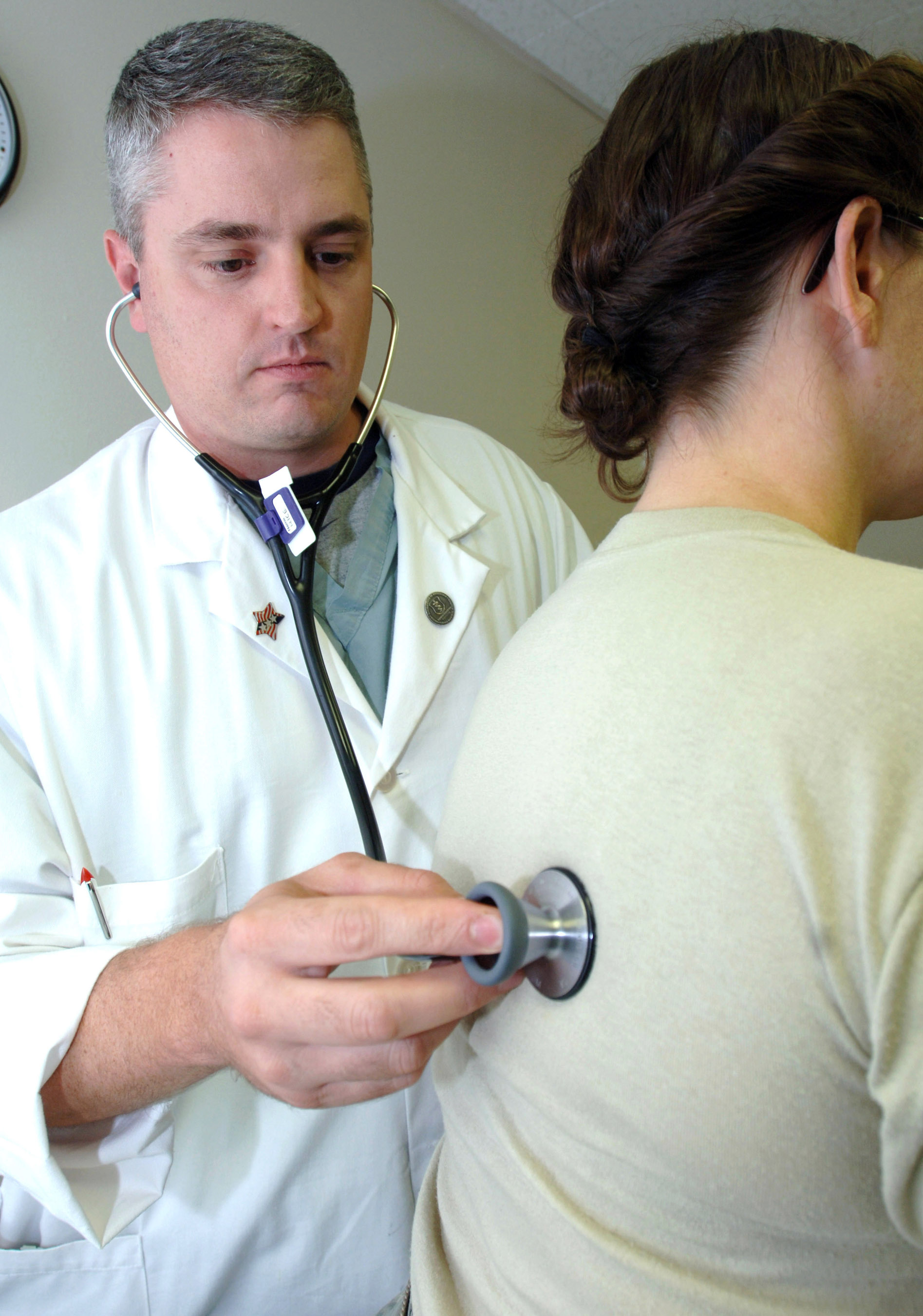 Dr. David Rice, a pulmonary and critical care physician at Wilford Hall Medical Center, Lackland Air Force Base, Texas, listens to a patient's heart beat during an exam on August 4th in the pulmonary clinic.